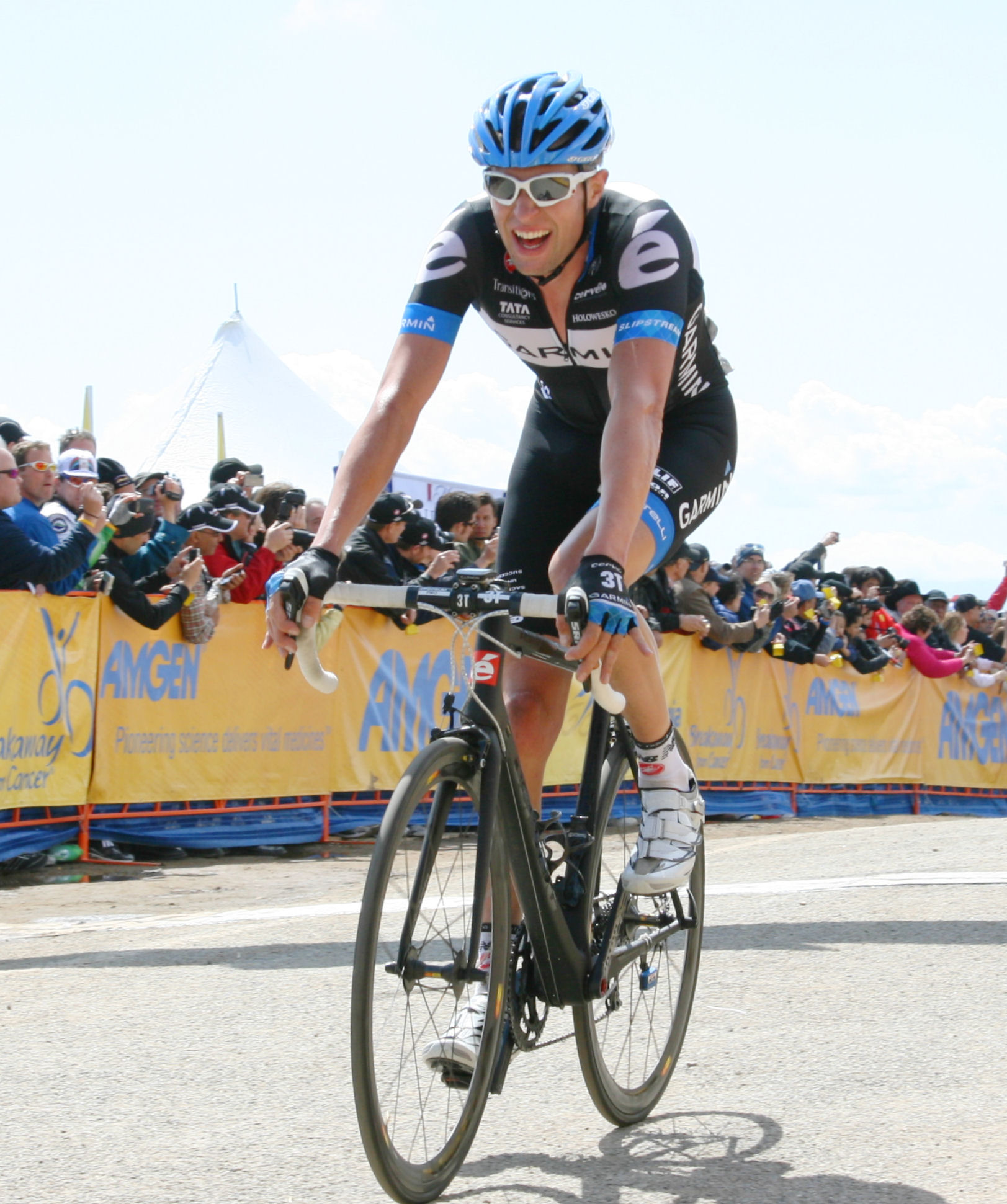 7th place. 2011 Amgen Tour of California Stage 4 Finish at the top of Sierra Road, San Jose, California. You're free to use this photo, but you MUST attribute to Richard Masoner / Cyclelicious and (if an online publication) link to I biked 30 miles for this shot, so I'd like something for my effort. Thank you.